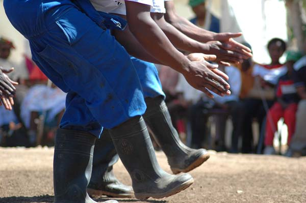 Gumboot dancers. Gumboot Dance performed by mine workers in South Africa.